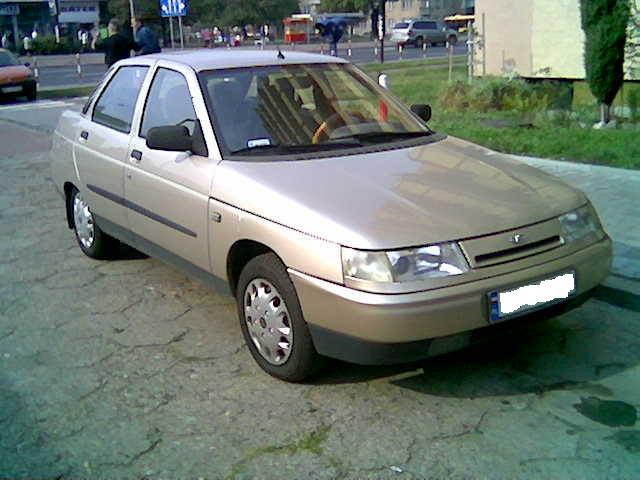 Lada 110 seen in Warsaw. Picture taken by mobile phone.